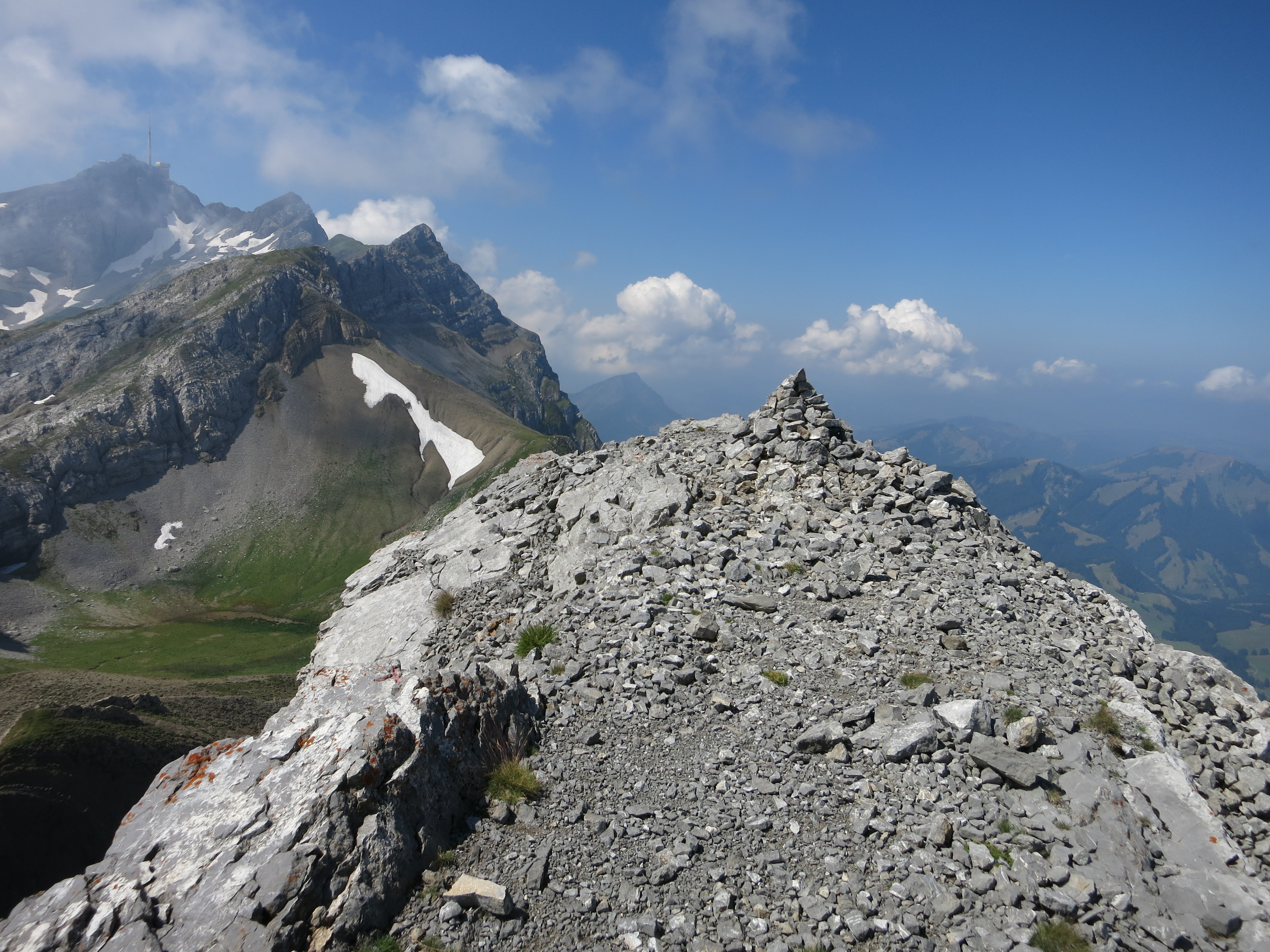 On top of mountain Oehrli, Switzerland